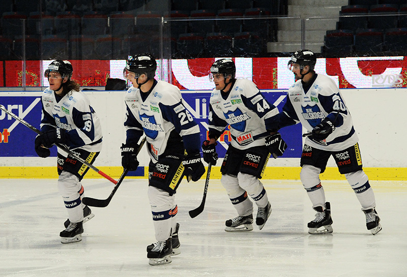 Players of BIK Karlskoga during a Hockeyallsvenskan game vs. AIK